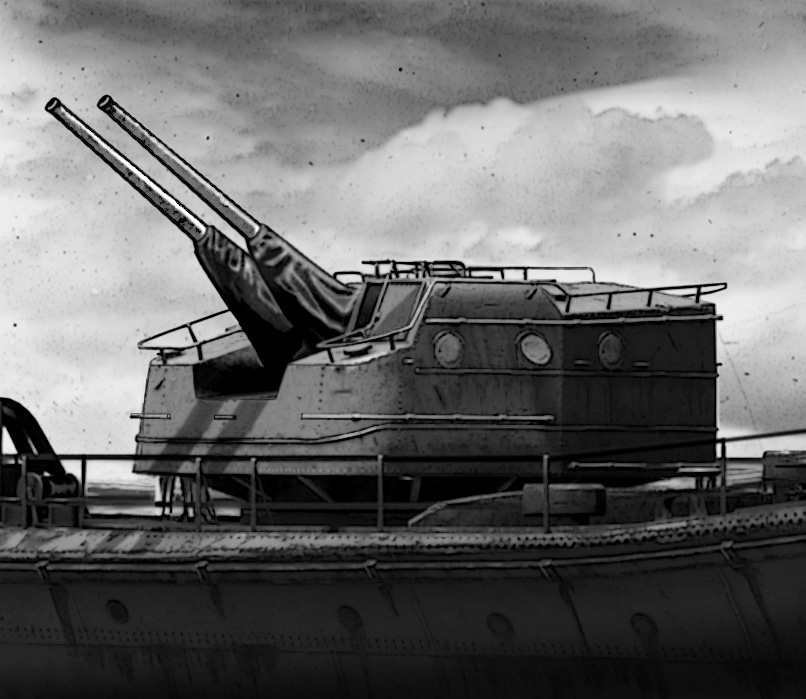 Type D turret equipped with two 127 mm Type 3 naval guns: this type of mount, capable of antiaircraft fire, was the standard one for the Yugumo-class destroyers and for the unique Shimakaze destroyer ( graphic retouching of the bow cannon turret)